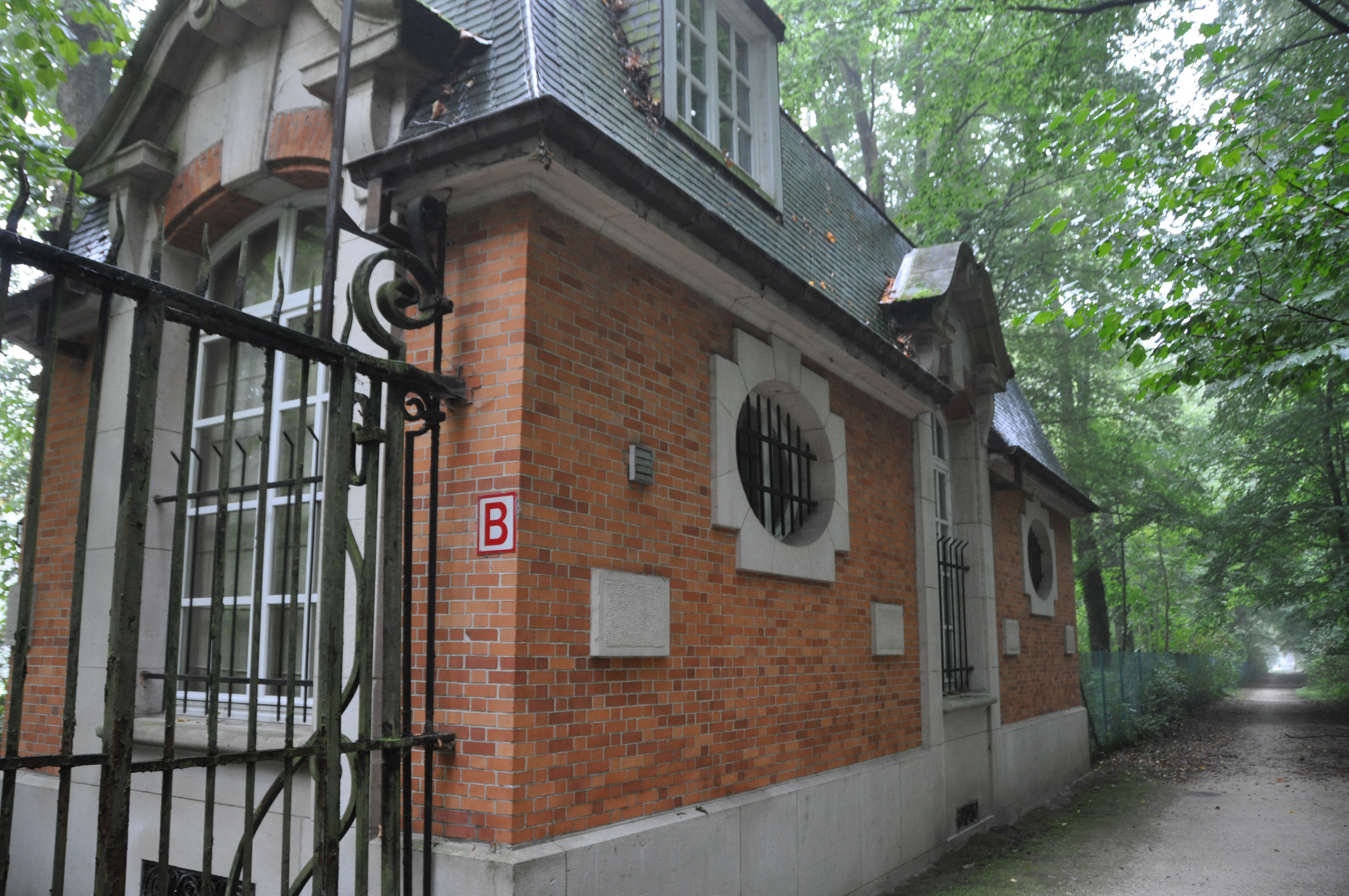 Conciergerie du château de La Fougeraie